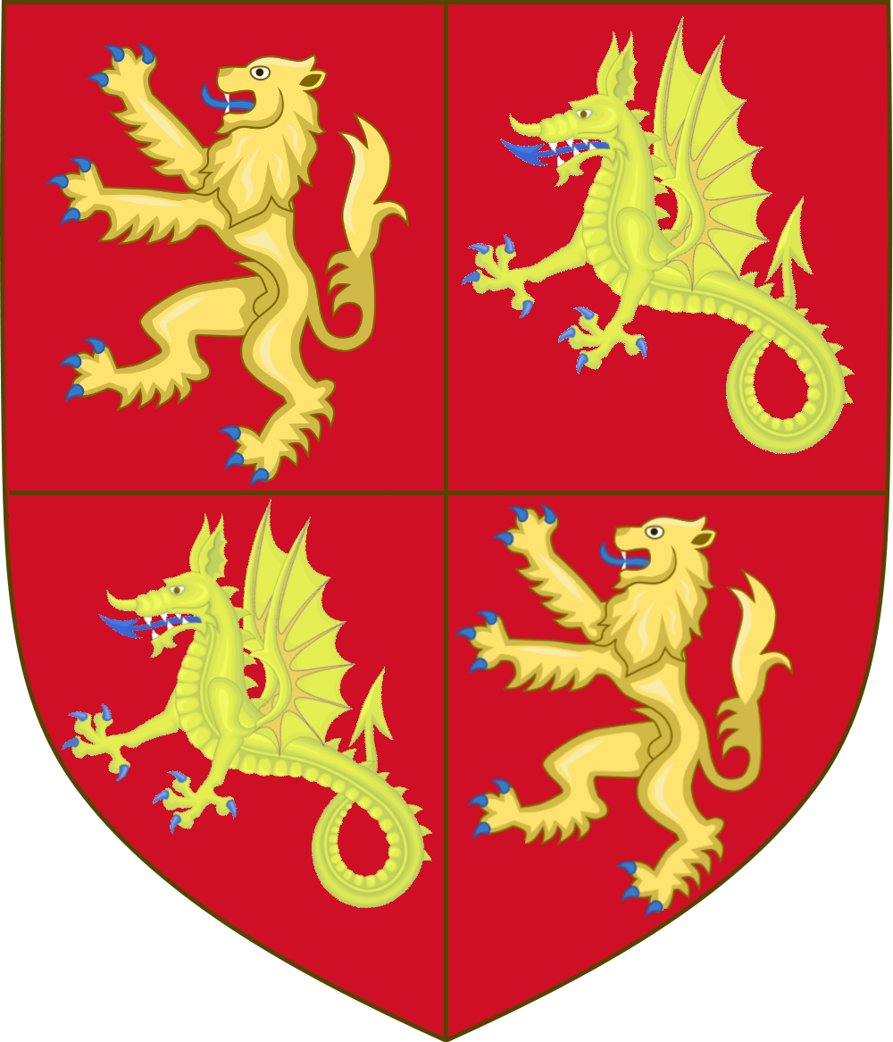 Attributed coat of arms of King Cnut (who lived before standardized coats of arms came into use) by Matthew Paris